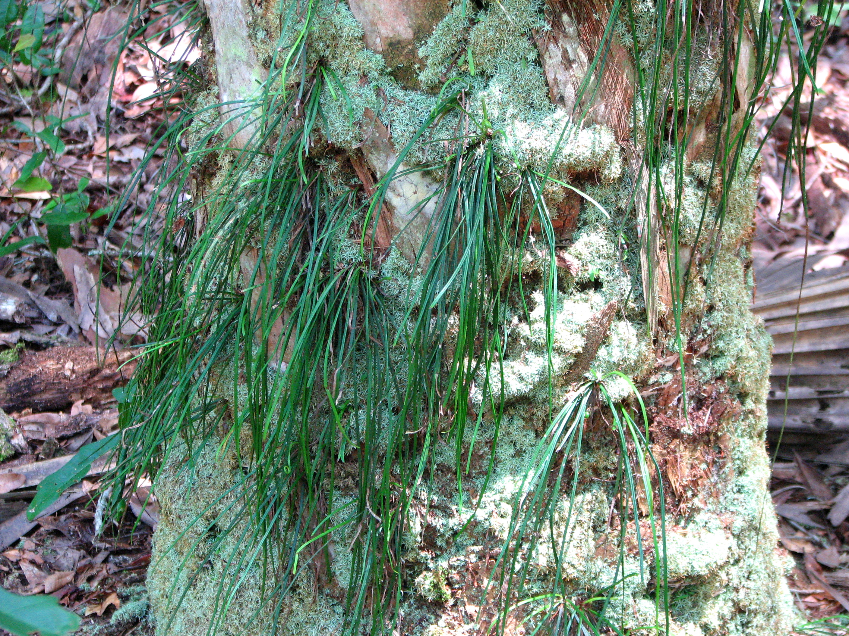 Vittaria lineata, Flat Island Preserve, Leesburg, Florida